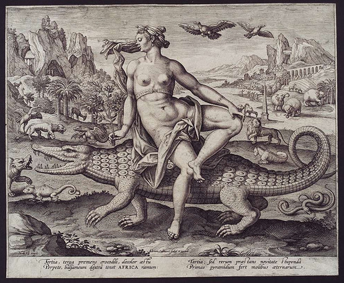 Designed by the Flemish painter/artist, Marten de Vos and engraved by Adriaen Collaert.